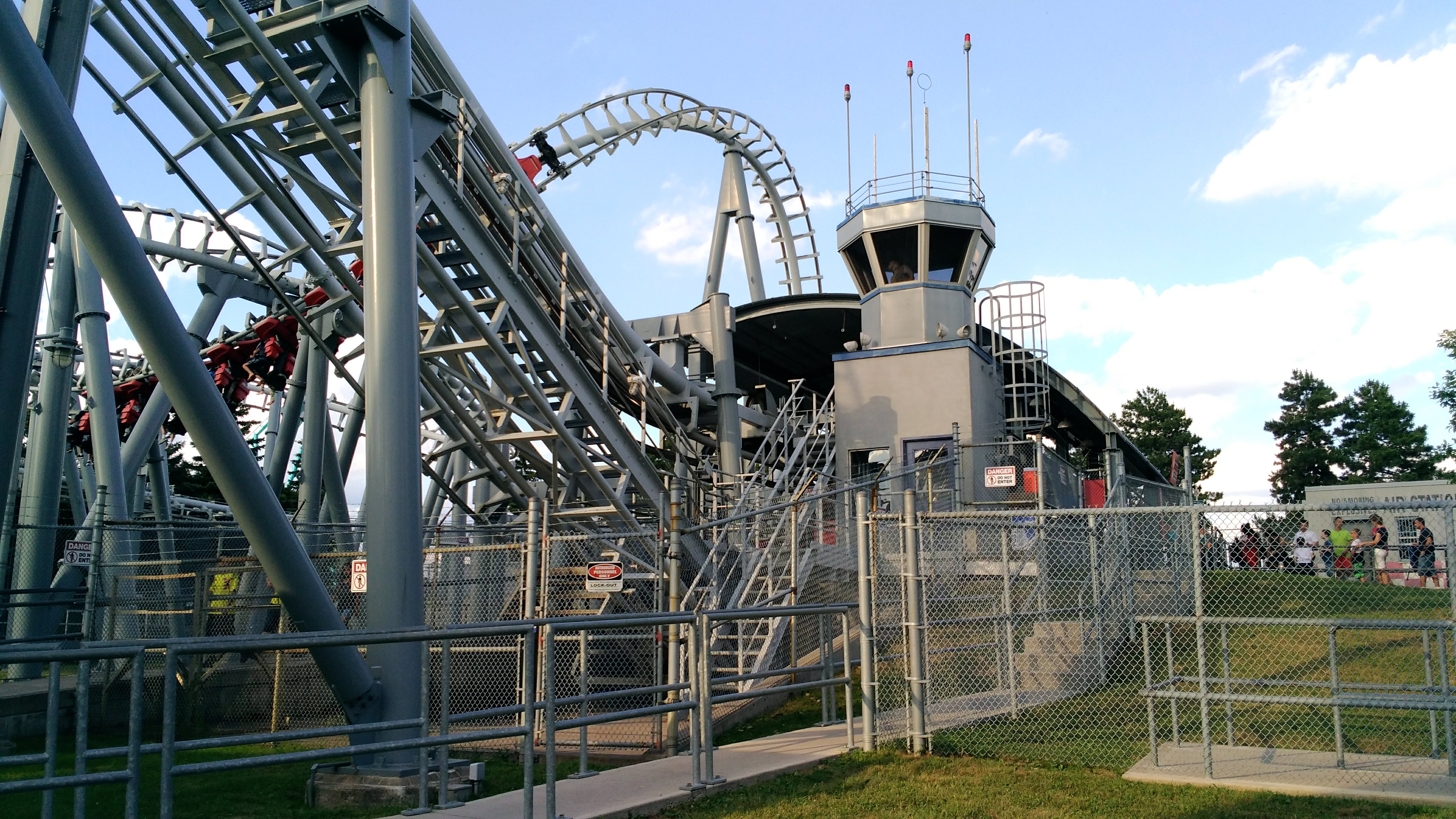 Outside view of the station, bottom part of the lift, and rear part of the operator's booth.